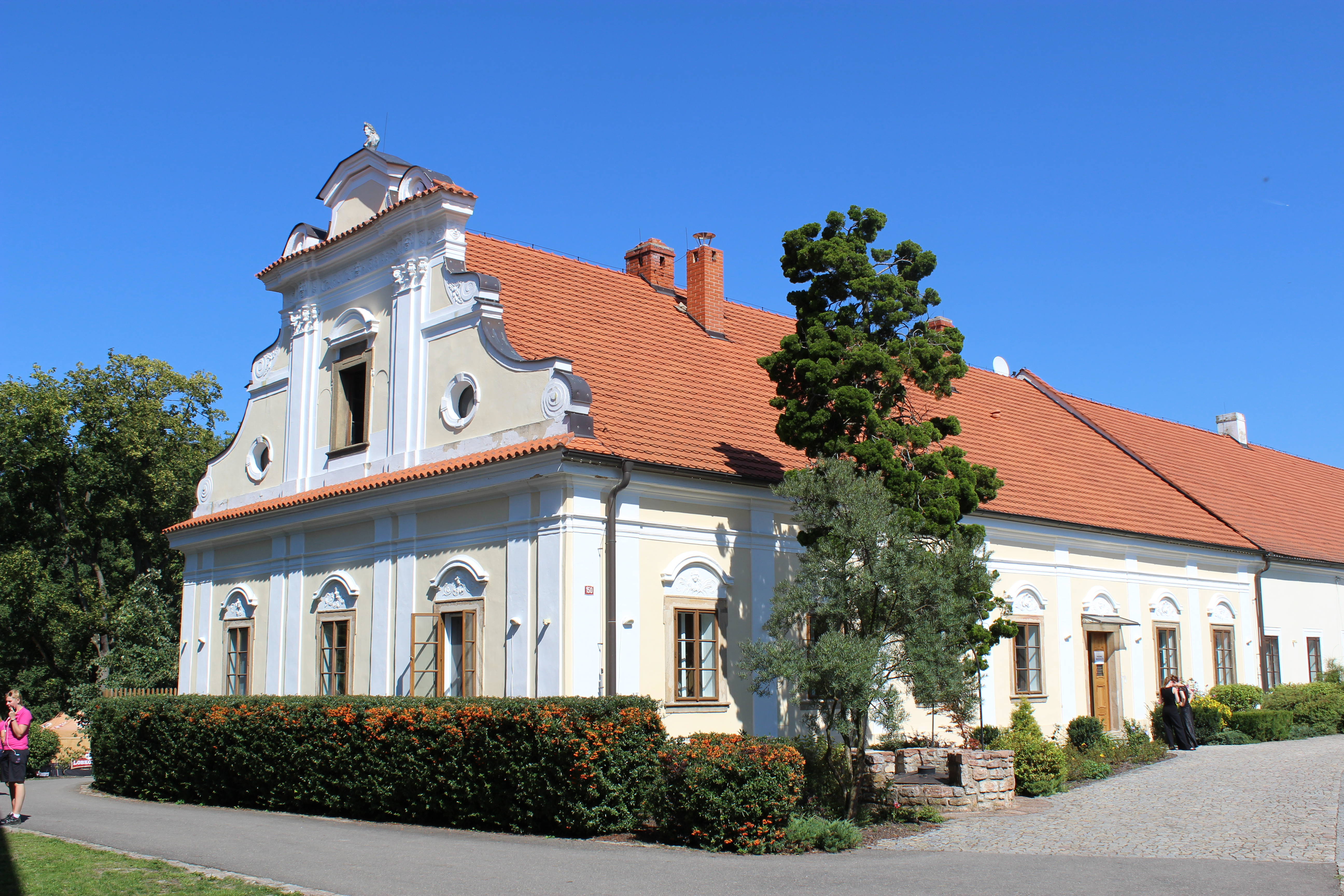 Castle Liteň.A house called Čechovna (Svatopluk Čech)